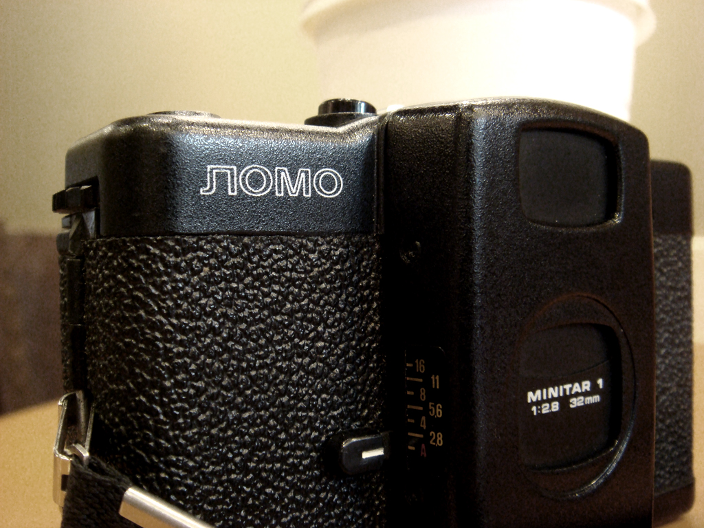 Russian made and more than 12 years old. My best purchase from eBay :)